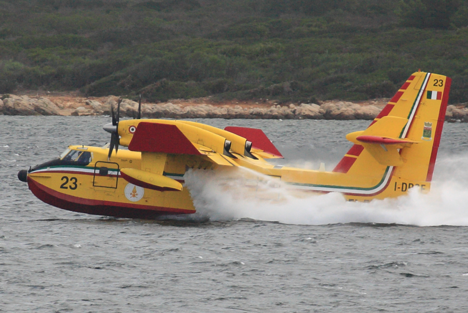 Sardinian Bombardier 415 refilling in Baia delle Ninfe. I-DBCF operated by the Vigili del Fuoco.